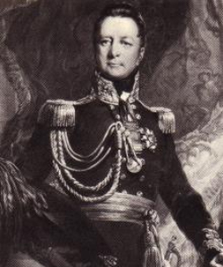 Portrait of George Ramsay, 9th Earl of Dalhousie, governor of British North America